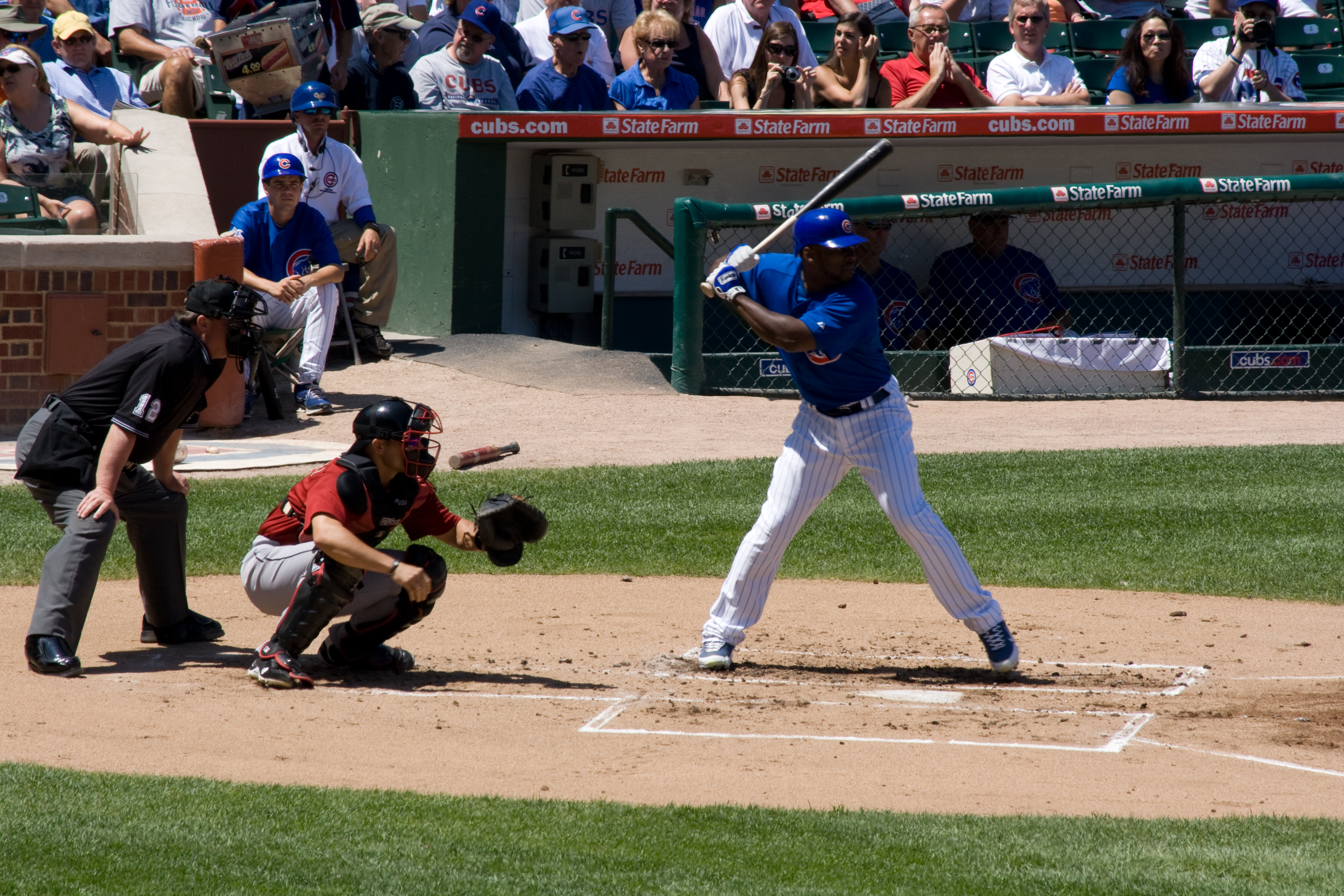 Milton Bradley of the Chicago Cubs - 2009-07-29